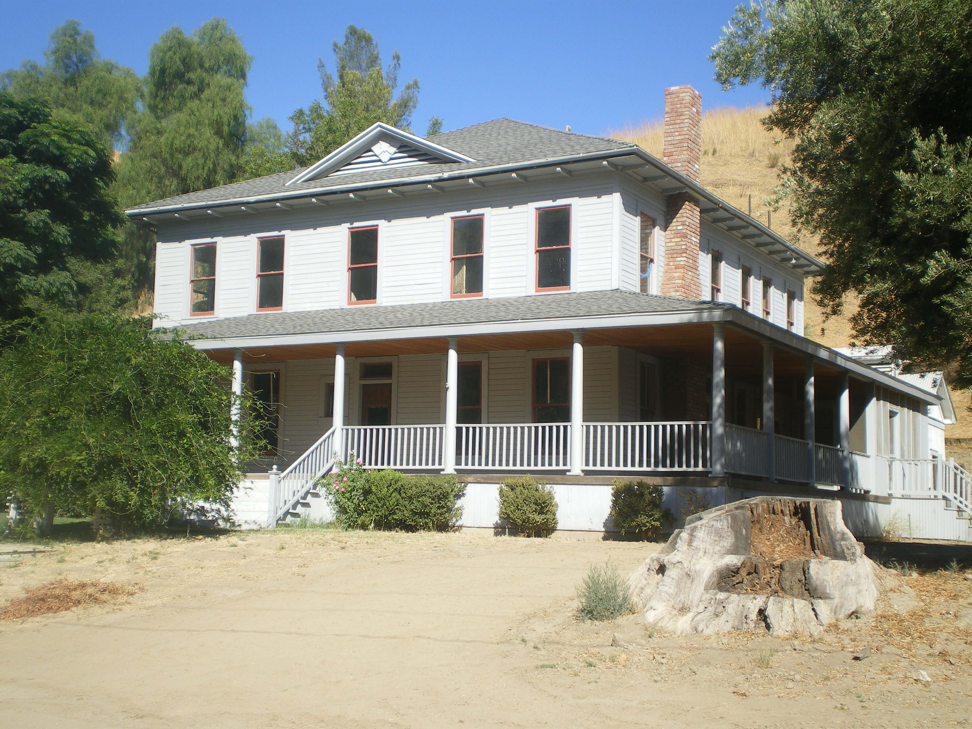 C.A. Mentry House, Mentryville, Santa Susana Mountains - Southern California